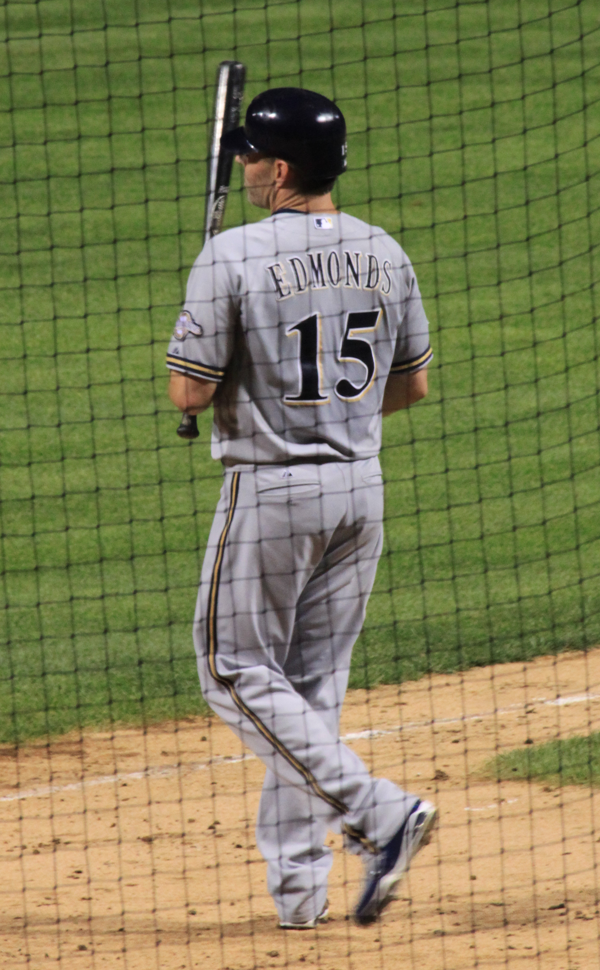 Jim Edmonds